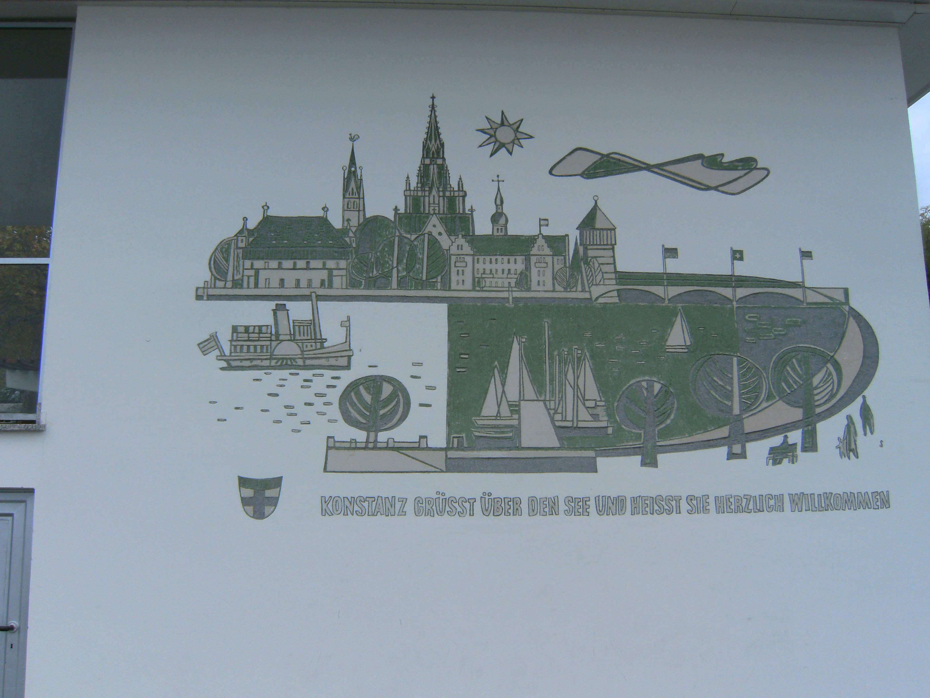 Meersburg, Germany. Fährehafen: Sgraffito by paintor Hans Sauerbruch. Scenary: View on Konstanz, Bodensee.